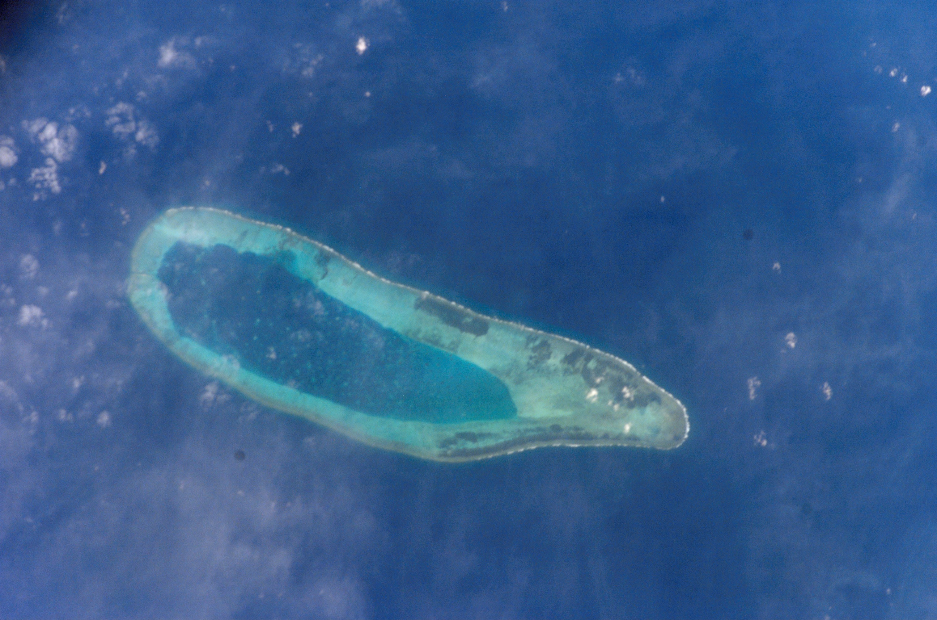 Bombay Reef, Paracel Islands. Photo number: ISS004-E-7147. Image courtesy of the Image Science & Analysis Laboratory, NASA Johnson Space Center